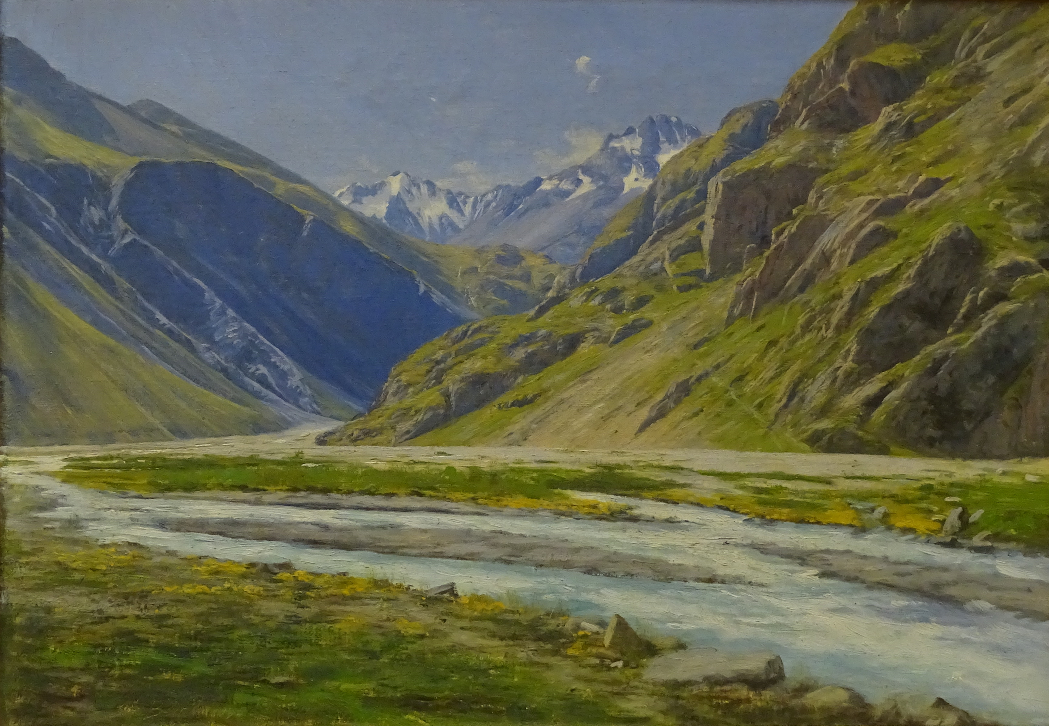 Charles Bertier, la vallée de la Romanche vue depuis le Pied-du-Col, c1894, Musée de Grenoble